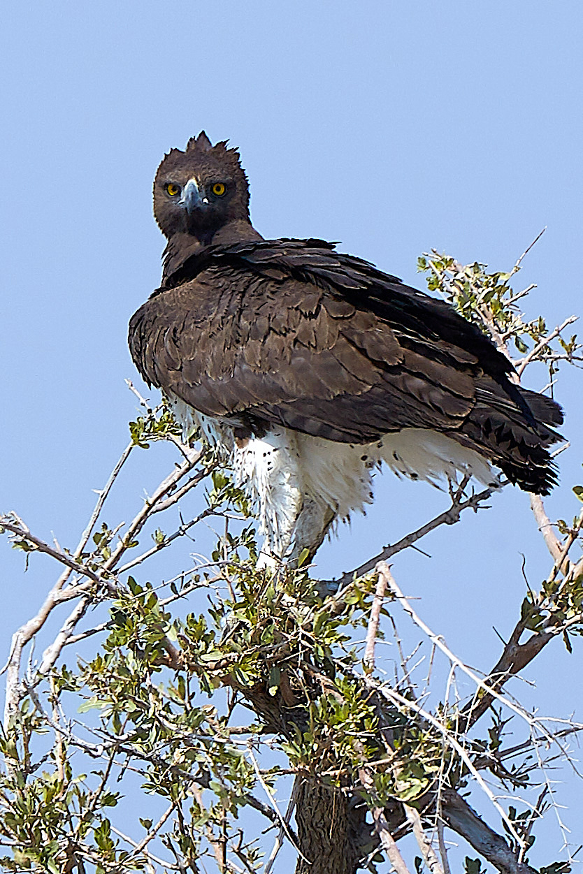 Martial Eagle (Polemaetus bellicosus) near Okaukuejo in Etosha